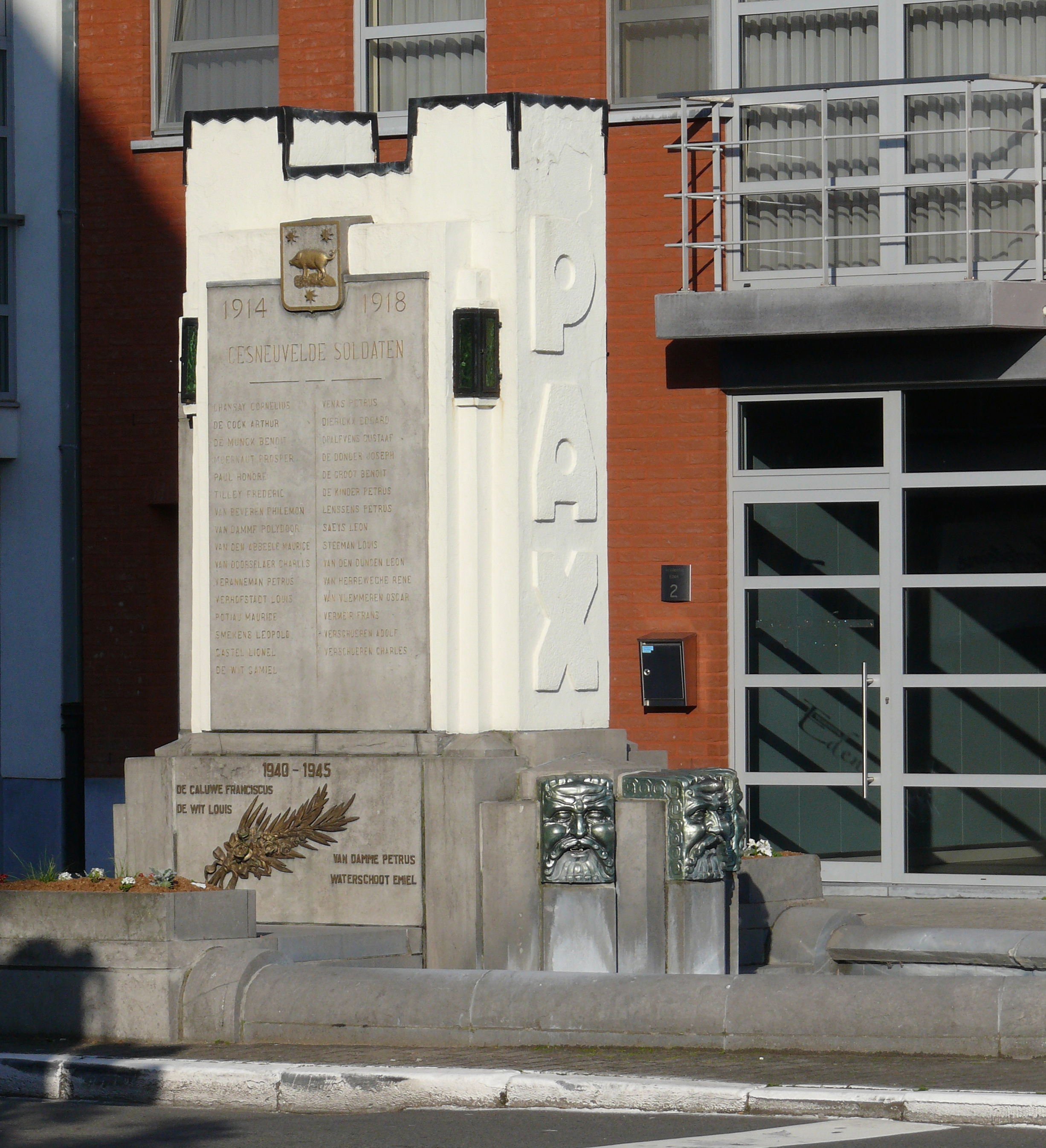 War Memorial erected in memory of the inhabitants of Sint Gillis bij Dendermonde who died in the First World War. The design is by the architect Jules Tijtgat. The monument was inaugurated in 1931.